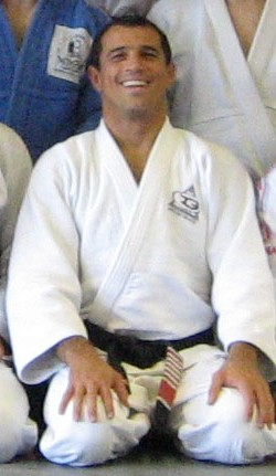 Brazilian jiu-jitsu fighter Royler Gracie